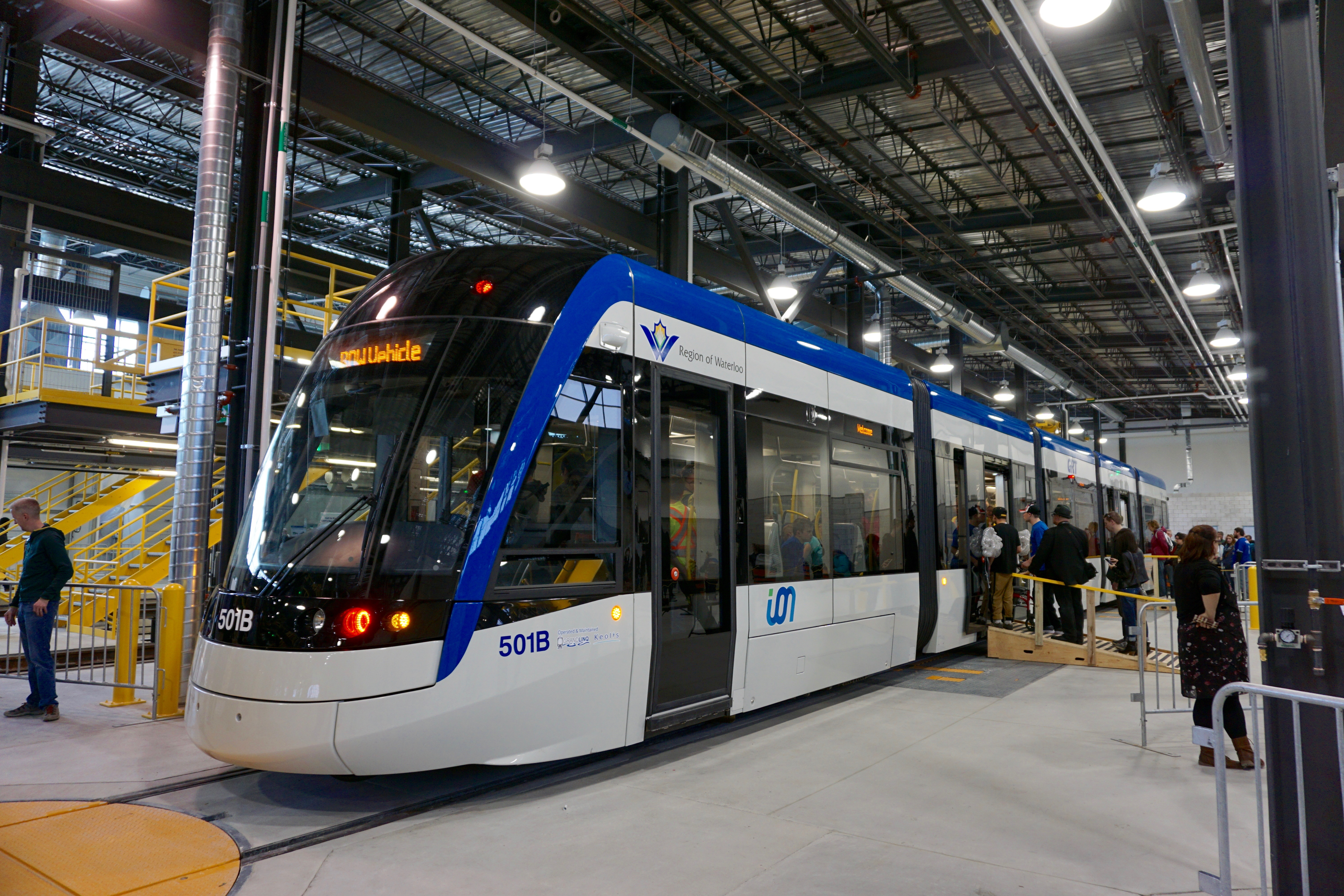 The first Bombardier Flexity Freedom tram delivered to Kitchener-Waterloo, Ontario, Canada, on public display at the Operations and Maintenance Centre in April 2017.